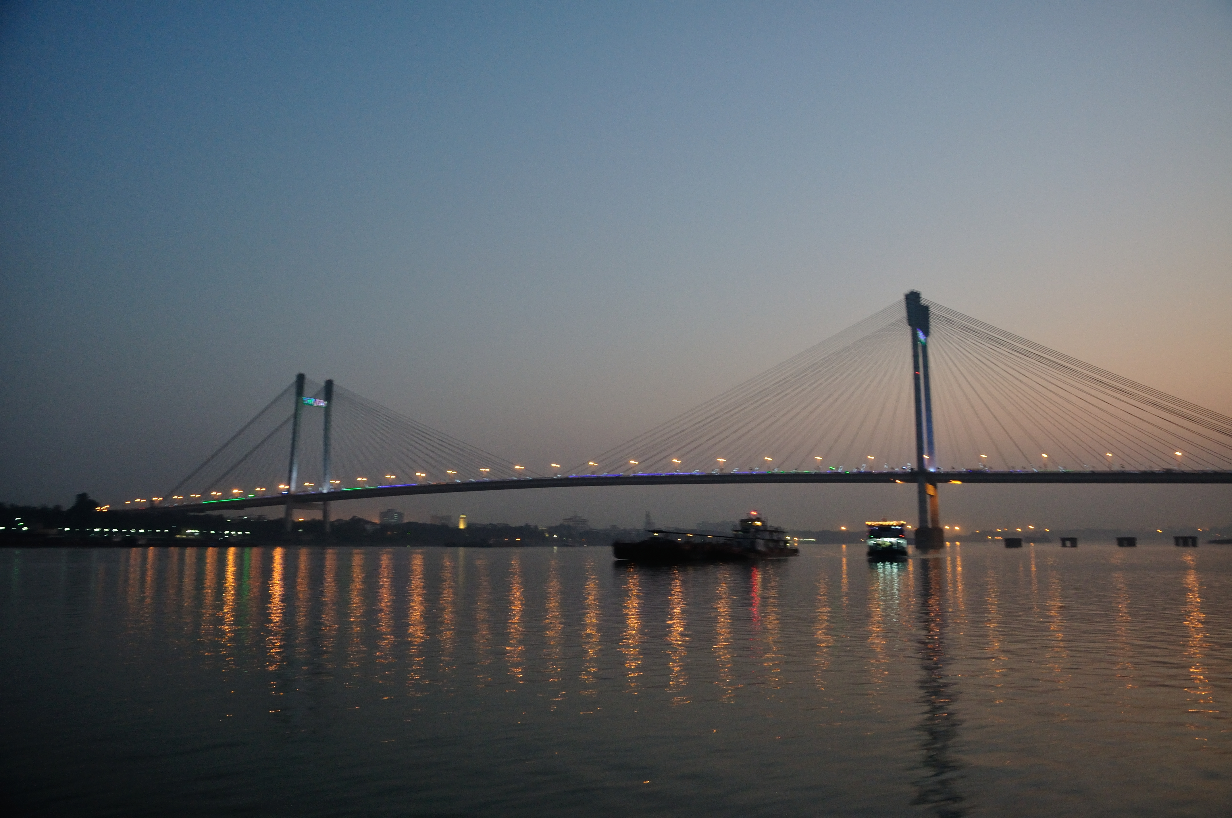 Photographed in Kolkata.